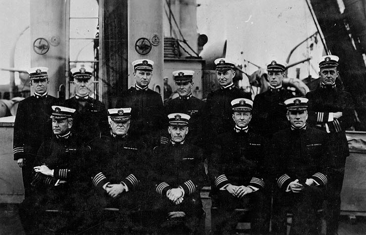 Photo #: NH 52995 (complete caption) Mine Squadron One, U.S. Atlantic Fleet Senior officers of the squadron, photographed on board ship in the North Sea area, September 1918. Seated in front row are (from left to right): Captain Wat T. Cluverius, Commanding Officer USS Shawmut; Captain Clark D. Stearns, C.O. USS Roanoke; Captain Reginald R. Belknap, Commander Mine Squadron One; Captain Henry V. Butler, C.O. USS San Francisco; and Captain Albert W. Marshall, C.O. USS Baltimore. Standing in back row are (from left to right): Commander Bruce L. Canaga, Aide to Commander Mine Squadron One; Captain Thomas L. Johnson, C.O. USS Canonicus; Captain James H. Tomb, C.O. USS Aroostook; Captain John W. Greenslade, C.O. USS Housatonic; Commander Sinclair Gannon, C.O. USS Saranac; Commander William H. Reynolds, C.O. USS Canandaigua; and Commander Daniel P. Mannix, C.O. USS Quinnebaug. U.S. Naval Historical Center Photograph.